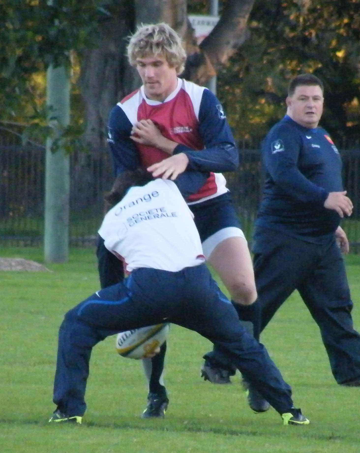 Remy Martin - French Rugby Union Training - Moore Park, Sydney 23 June 2009.